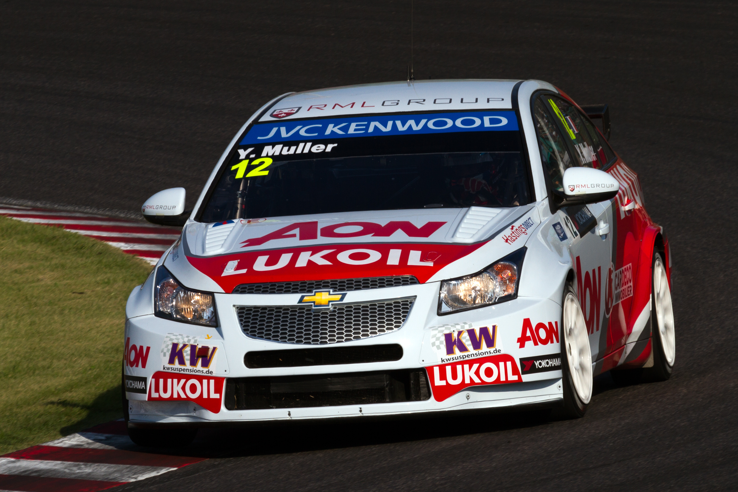 World Touring Car Championship 2013 Race of Japan: Yvan Muller (RML)